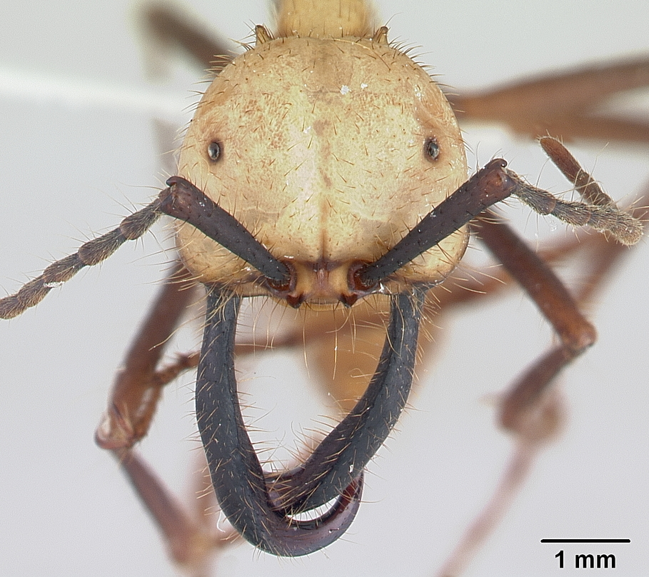 Head view of ant Eciton burchellii specimen casent0178611.